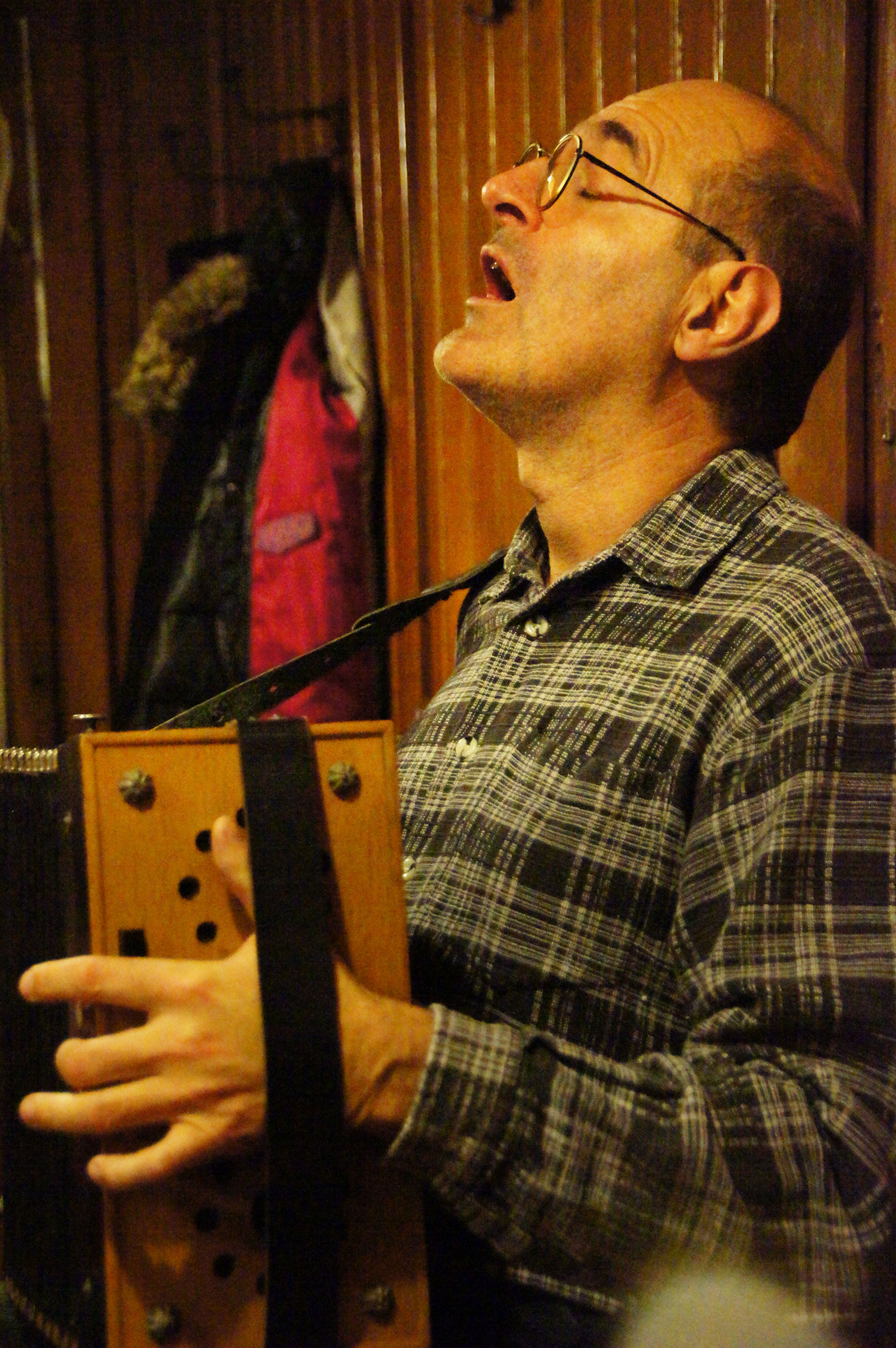 See filename and category description.